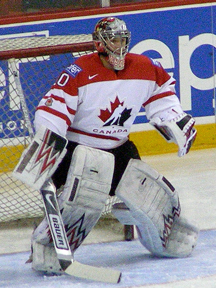 Canadian goaltender Cam Ward during a game against Finland at the IIHF World Hockey Championship in Halifax, NS, on May 12, 2008.